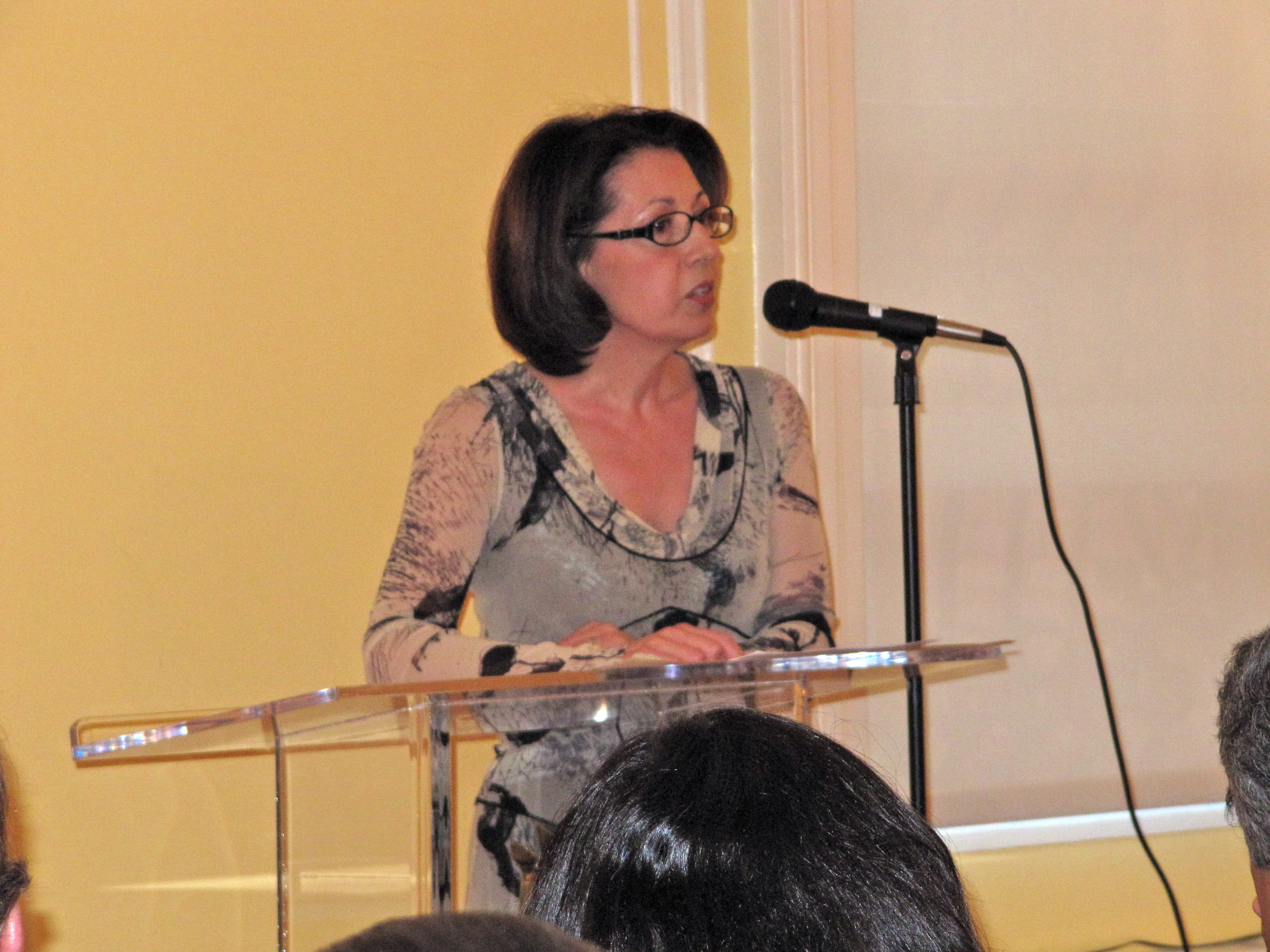 Peruvian American author Marie Arana speaking at the Embassy of Peru in Washington, DC in 2010